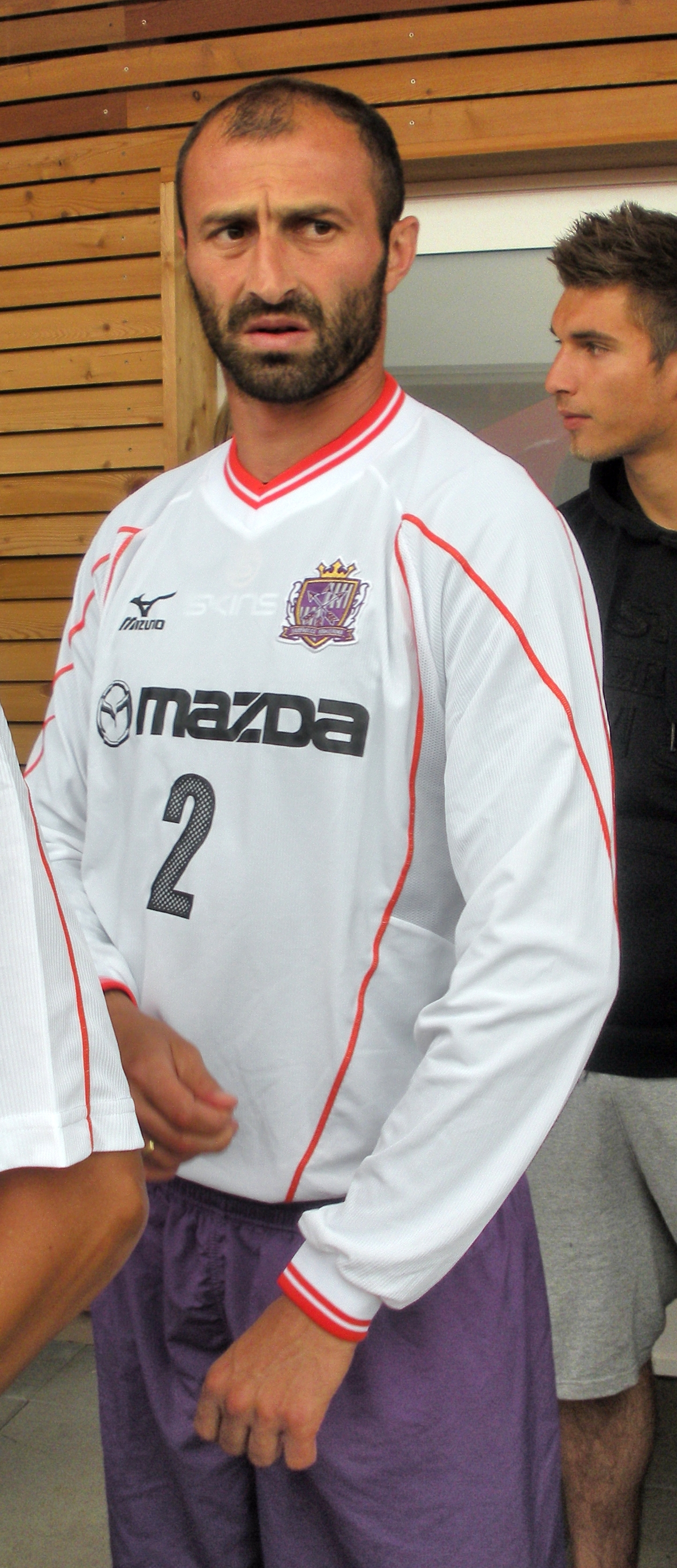 Bulgarian Ilian Stoyanov as player of Sanfrecce Hiroshima (Japan) shortly before an international pre-season friendly on 20 June 2010 against Kapfenberger SV from Austria at the football ground of LAC-Linden in Leibnitz (Styria / Austria)